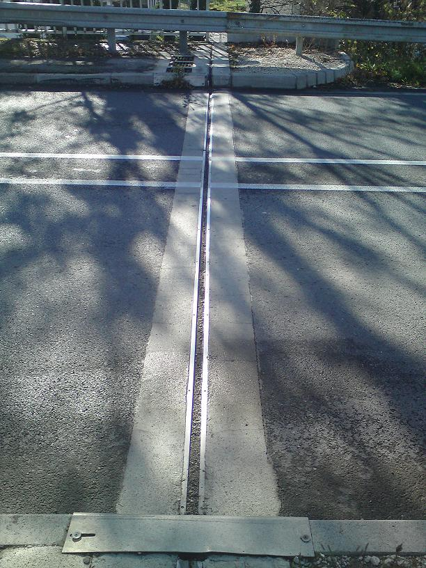 joint de dilatation gières